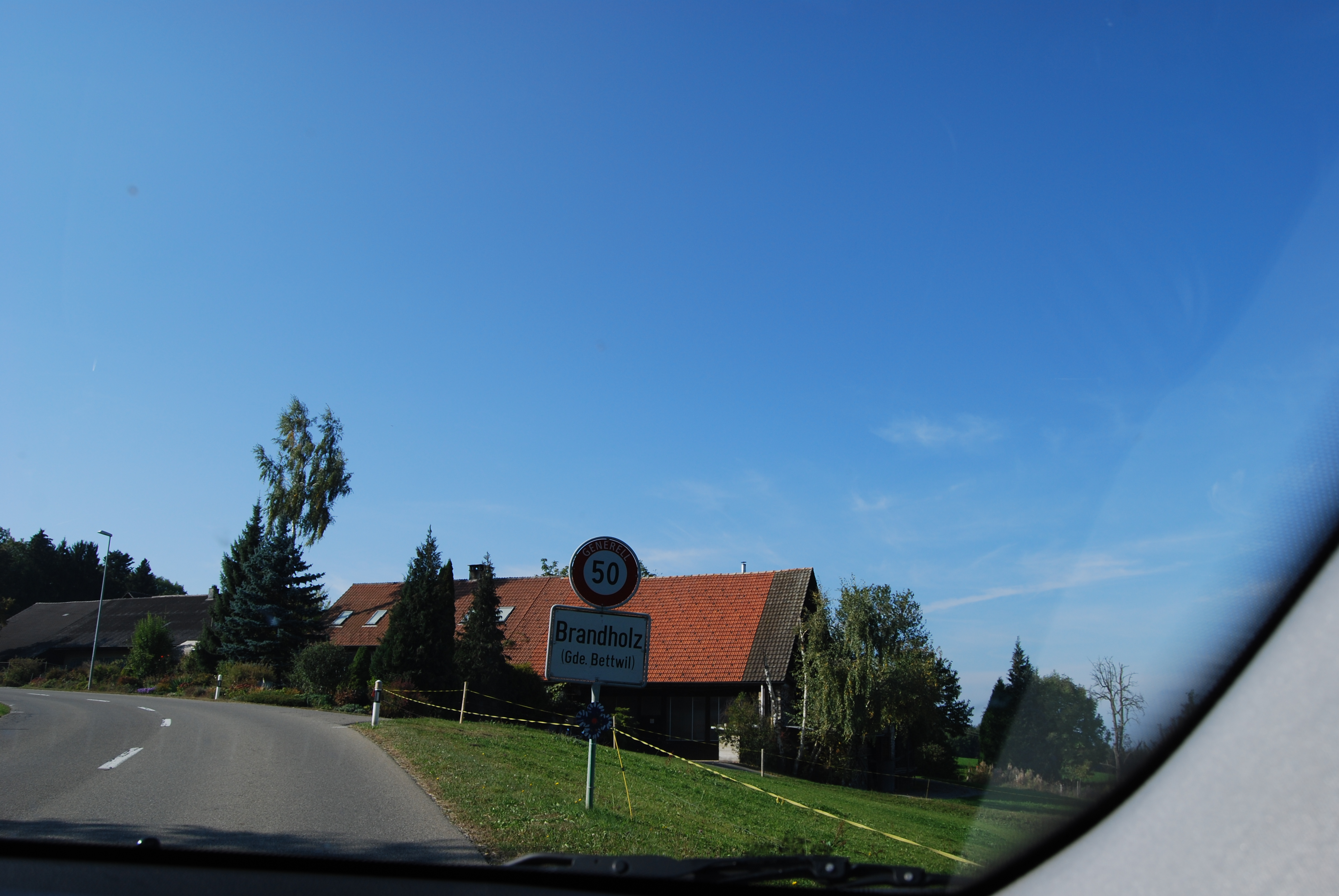 Brandholz, municipality of Bettwil, canton of Aargau, SwitzerlandEsperanto: Brandholz, komunumo Bettwil, Kantono Argovio, Svislando